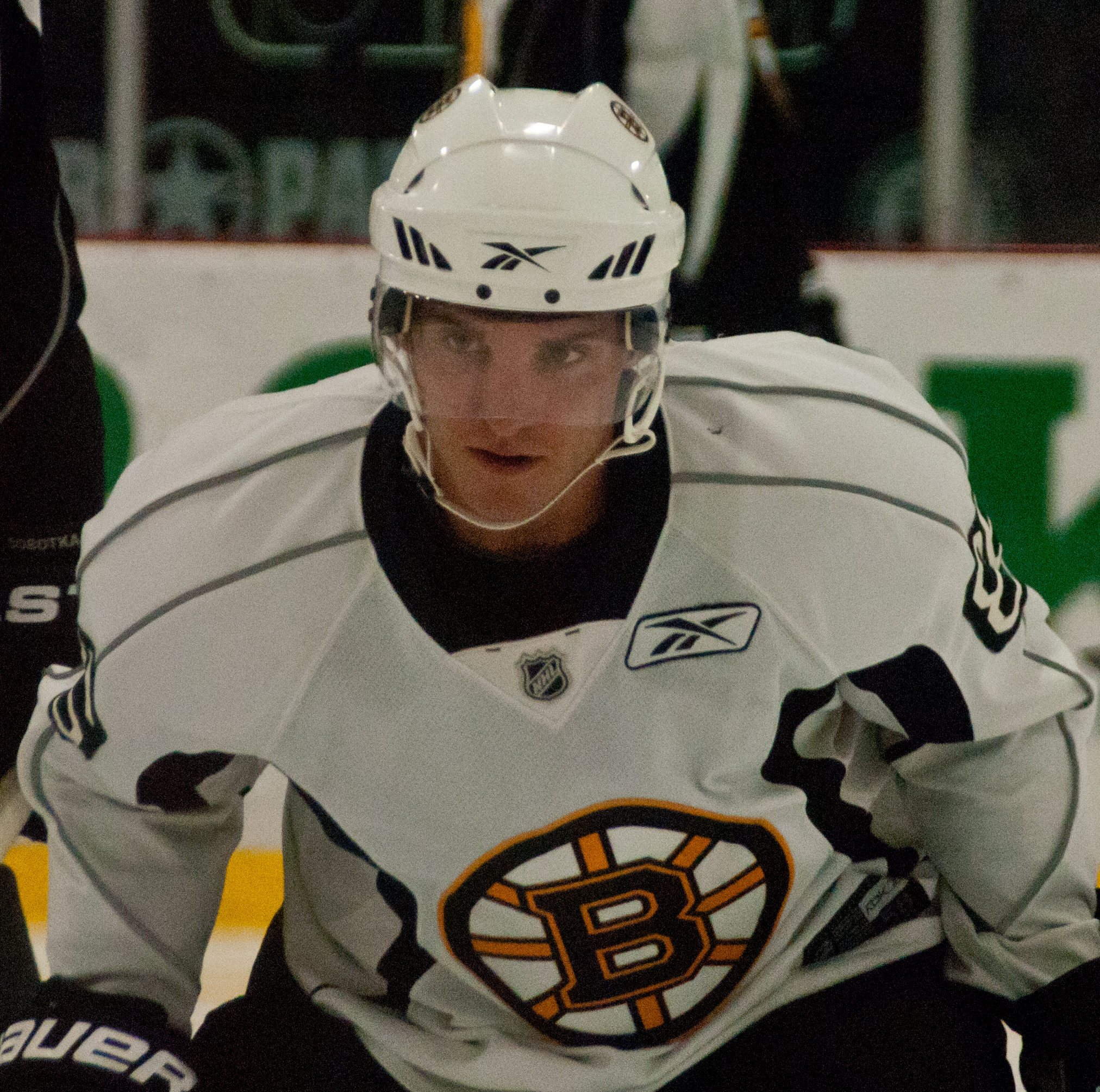 Bruins Dev Camp-6885.jpg Brett Olson during the Boston Bruins 2011 Development Camp - Day 3 National Hockey League (NHL) Photo taken by Sarah Connors at Wilmington, Massachusetts on July 9, 2011 using a Nikon D200. This photo also appears in sarah_connors' Flickr set: Bruins 2011 Development Camp - Day 3 (Set: 109)